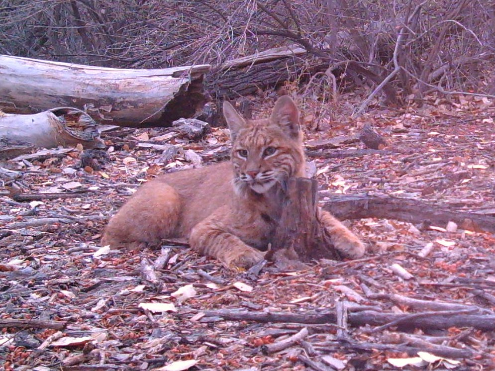 Bosque del Apache National Wildlife Refuge, NM Camera trap project by Matt Farley, Jennifer Miyashiro, and J.N. Stuart. Photo: J.N. Stuart, Creative Commons